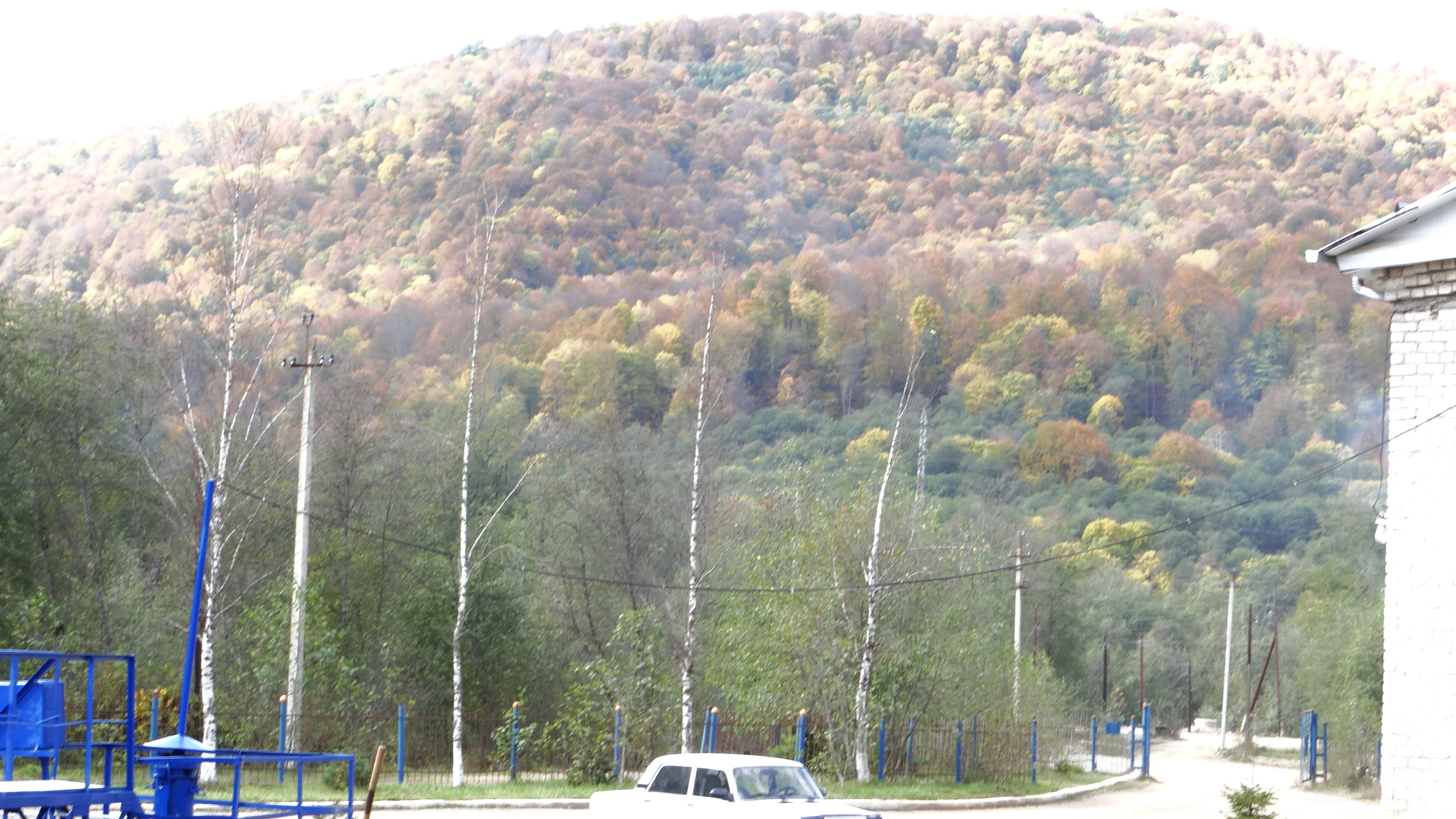 Urupsky District, Karachay-Cherkessia, Russia